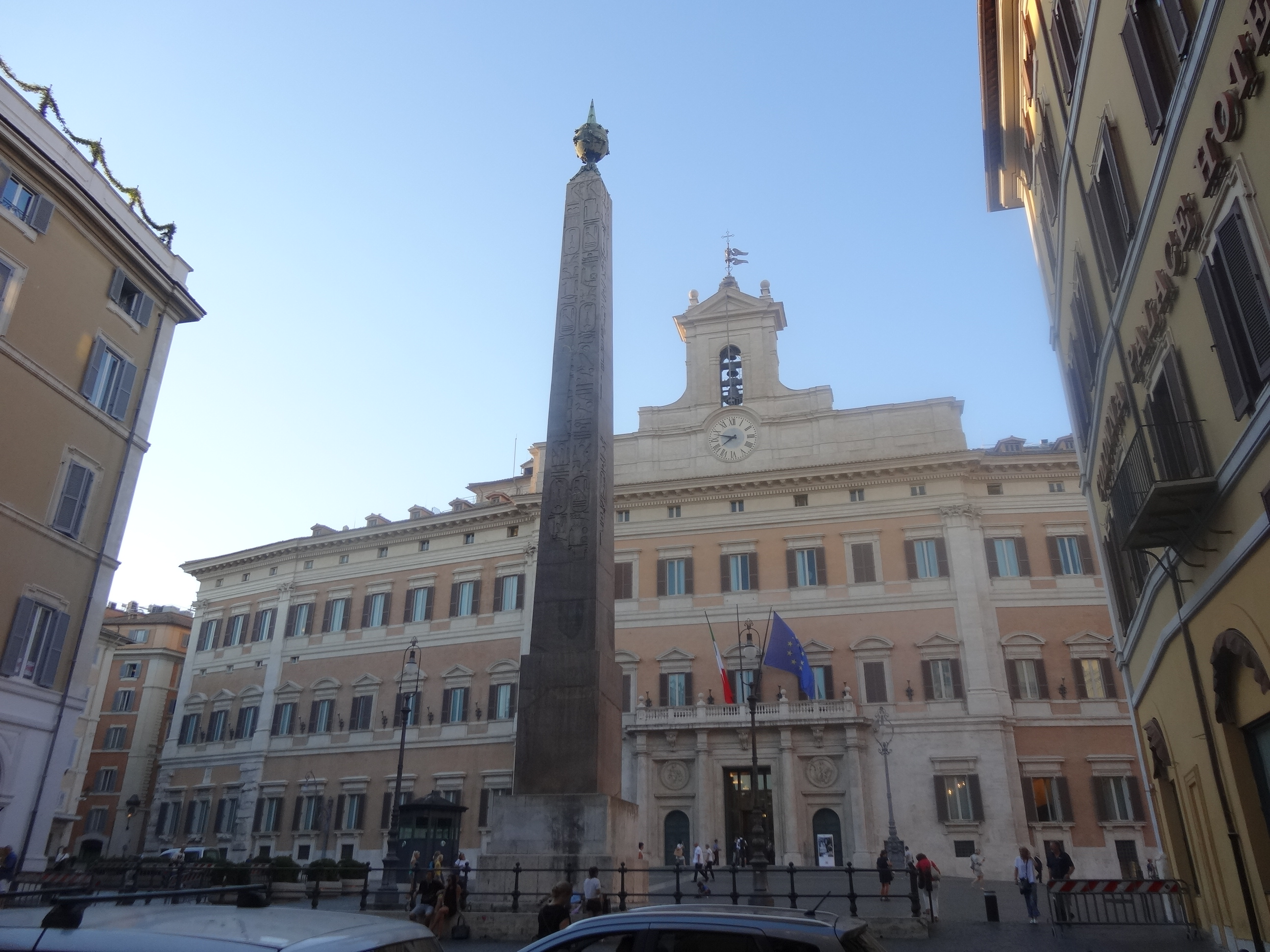 August 2016 in Rome. Piazza di Monte Citorio